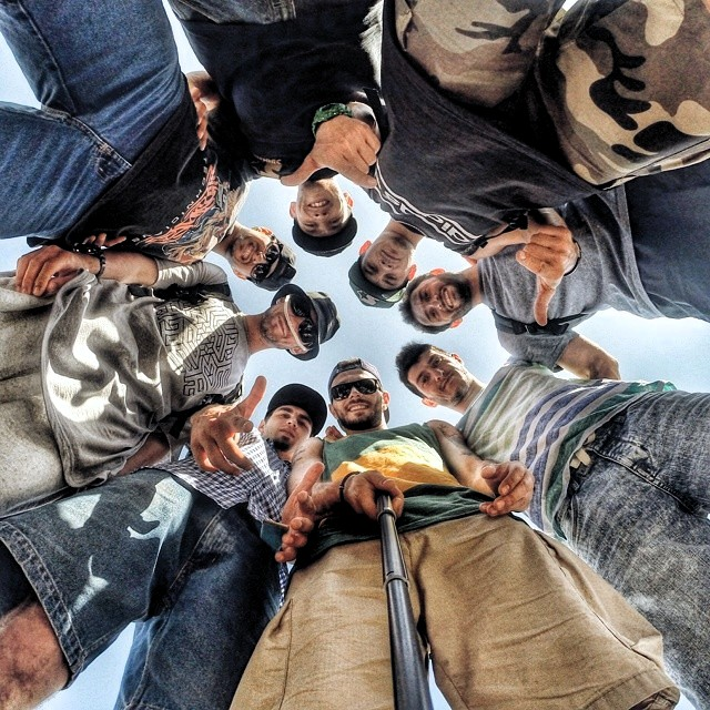 Predatorz Crew, breakdance from Russia